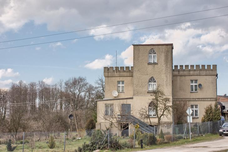 Długa Goślina dwór